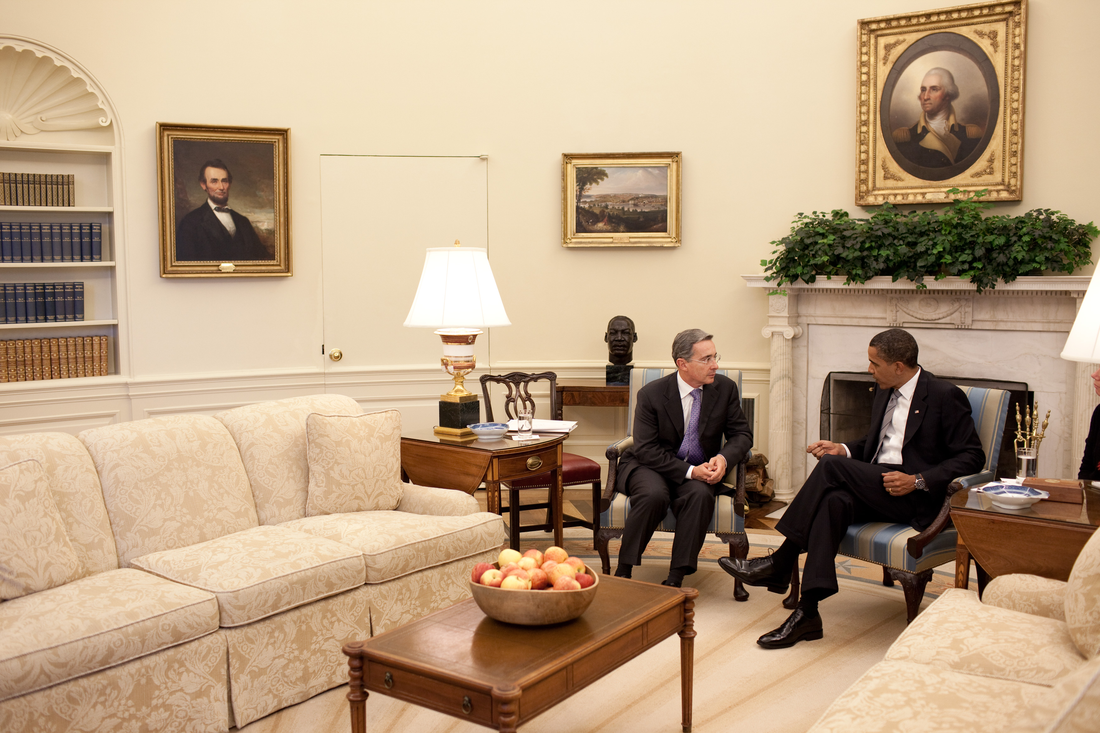 The President of the United States Barack Obama and The President of the Republic of Colombia Álvaro Uribe in the White House